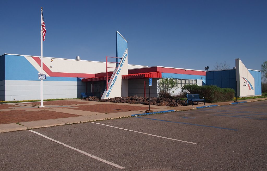 Greyhound Bus Museum, 1201 Greyhound Blvd, Hibbing, Minnesota, USA. Viewed from the southeast.